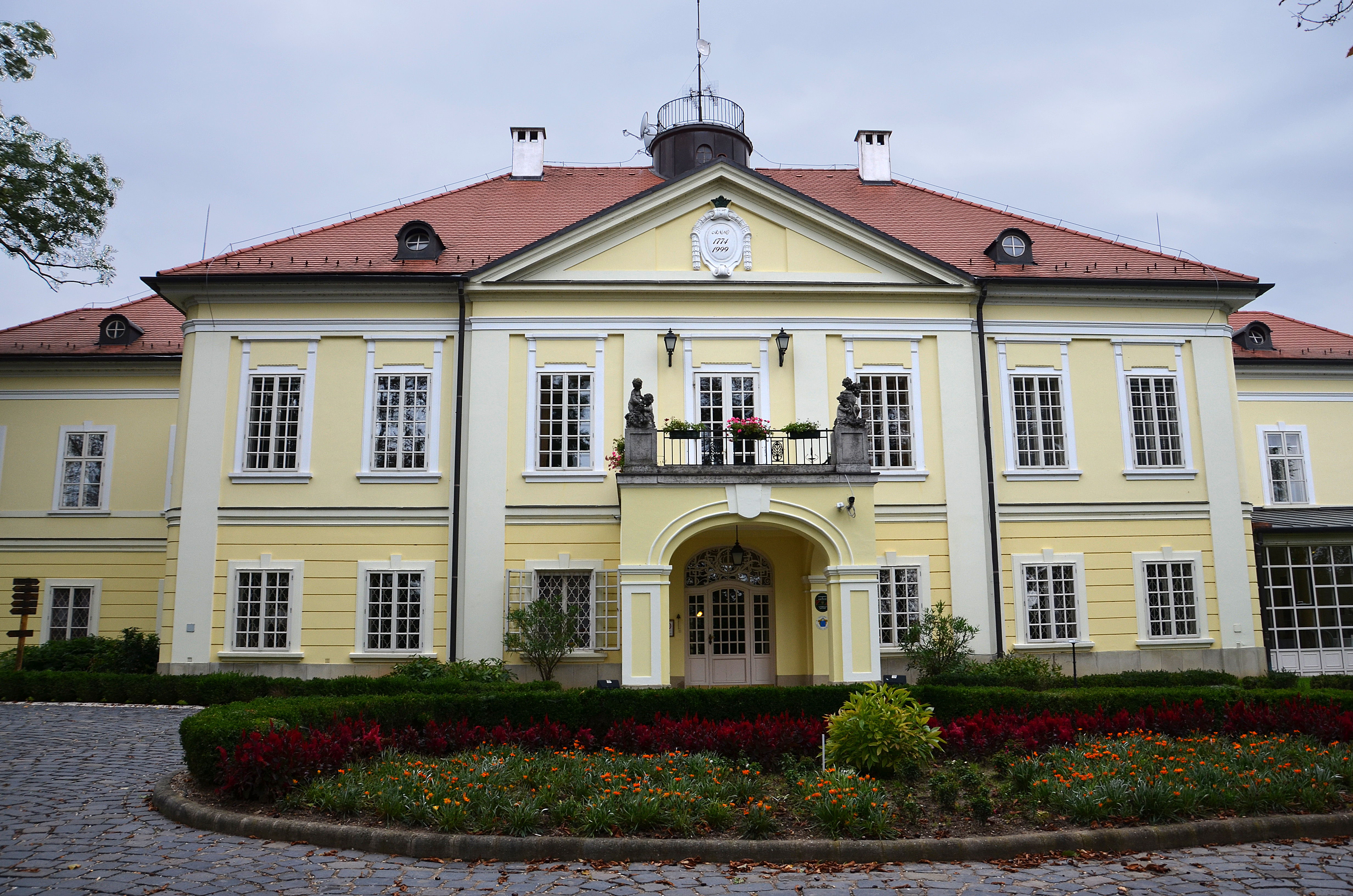 The Felsőbüki Nagy mansion in Röjtökmuzsaj, Hungary